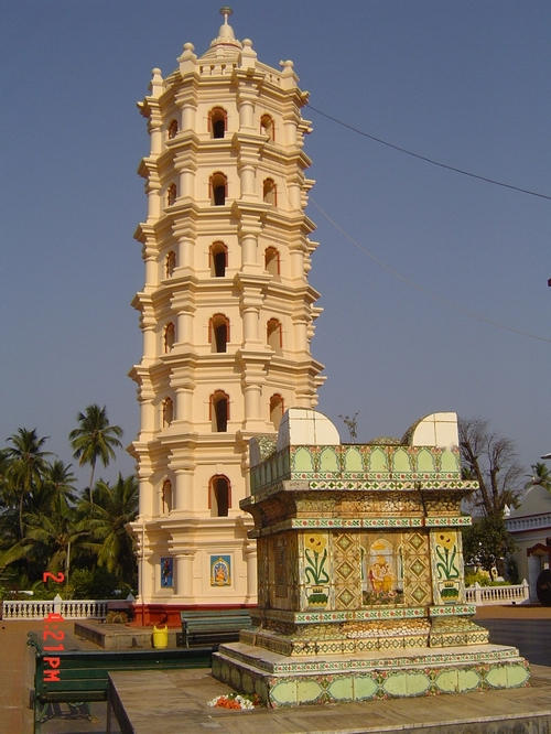 Shri Mangeshi Temple - Majestic 7 storied Deepa Stambha (Lamp Tower)